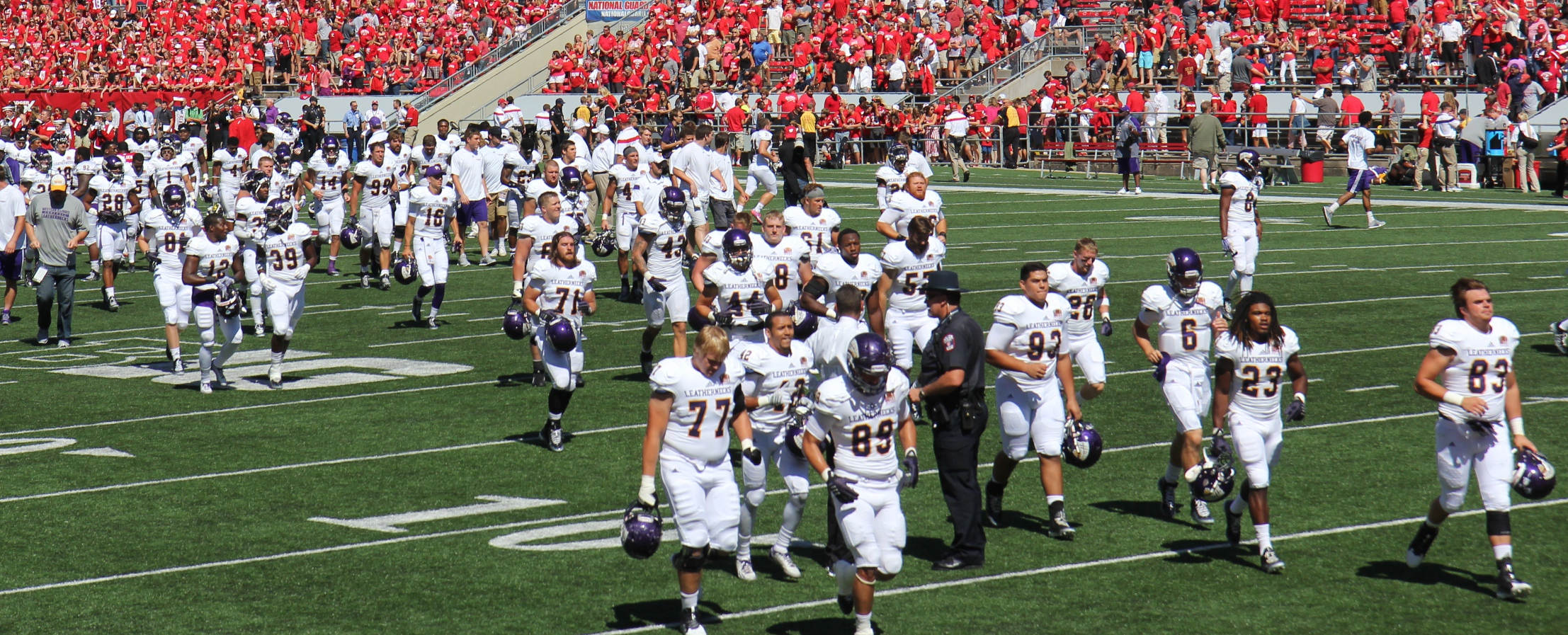 The Western Illinois Leathernecks football team leaves the field at Camp Randall Stadium after playing the Wisconsin Badgers.